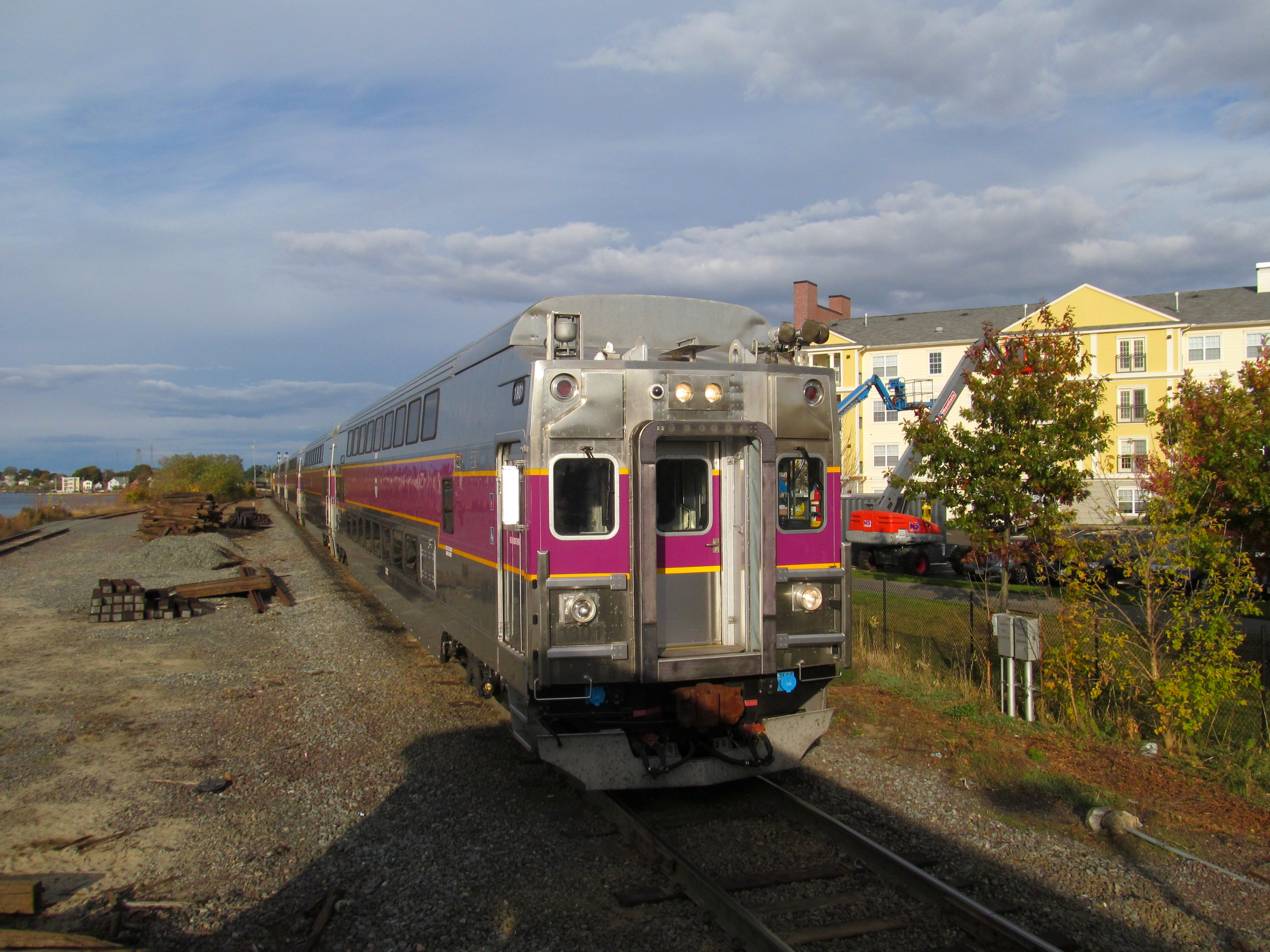 One of the first MBTA trains composed of all-new Rotem cars approaches Salem station inbound in October 2013 in Halloween extra service